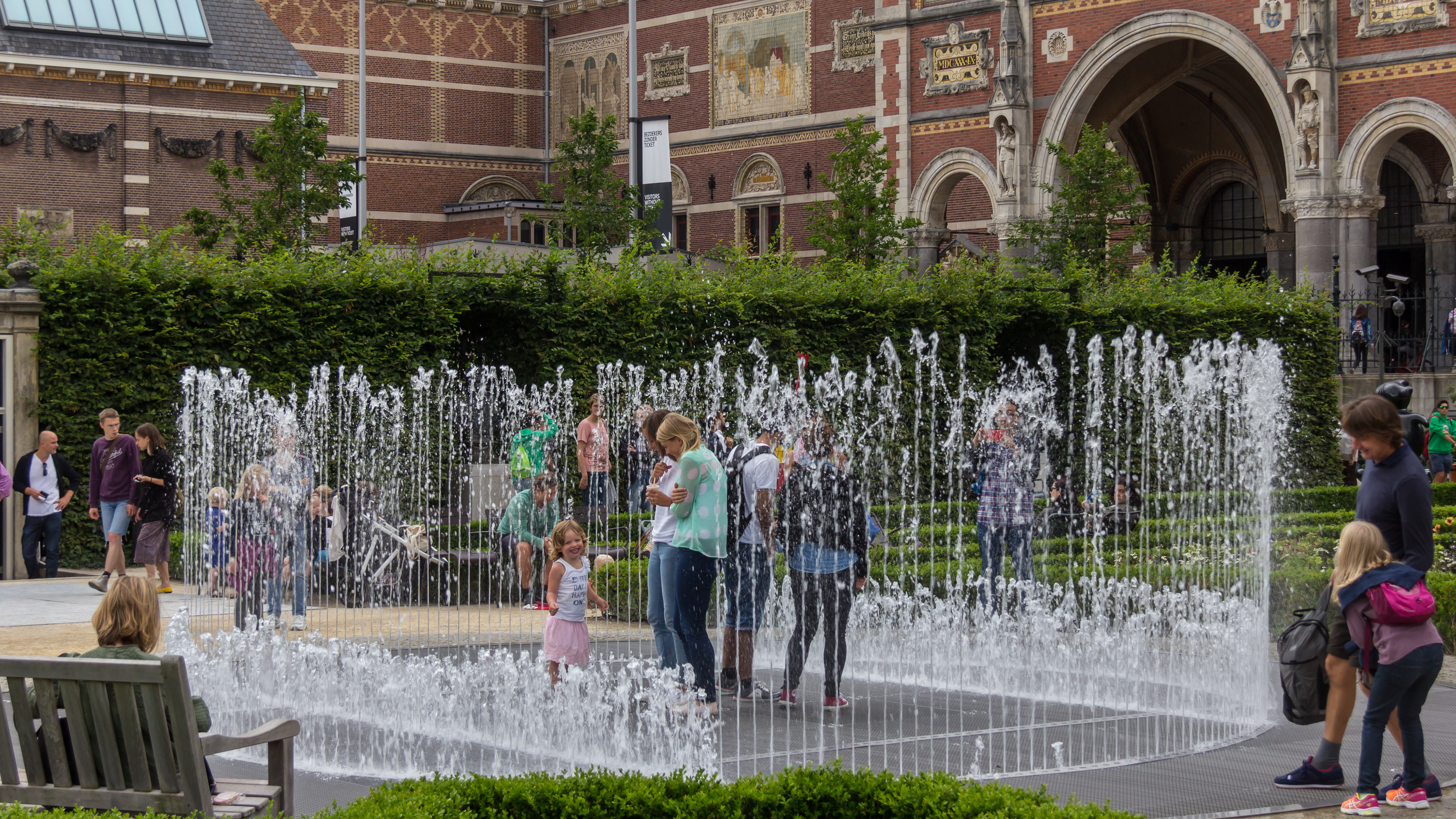 Water feature in sculpture garden Rijksmuseum Amsterdam